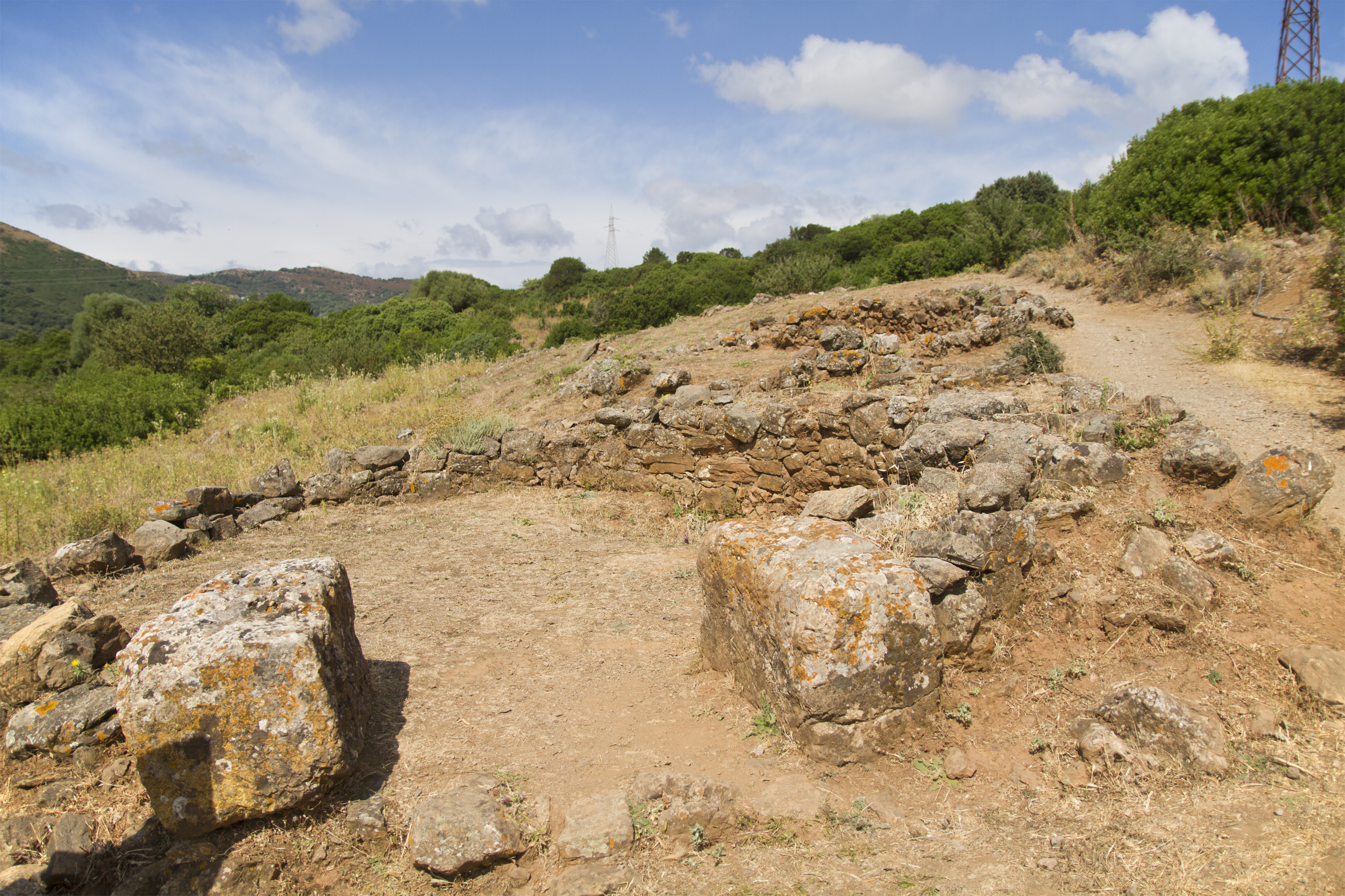 Village of Antas (Nuragic village)